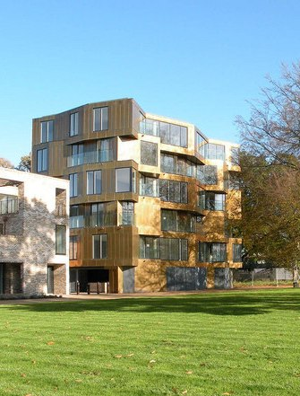 Alison Brooks Architects (ABA) designed "Brass" building (cropped), Accordia, Cambridge, England